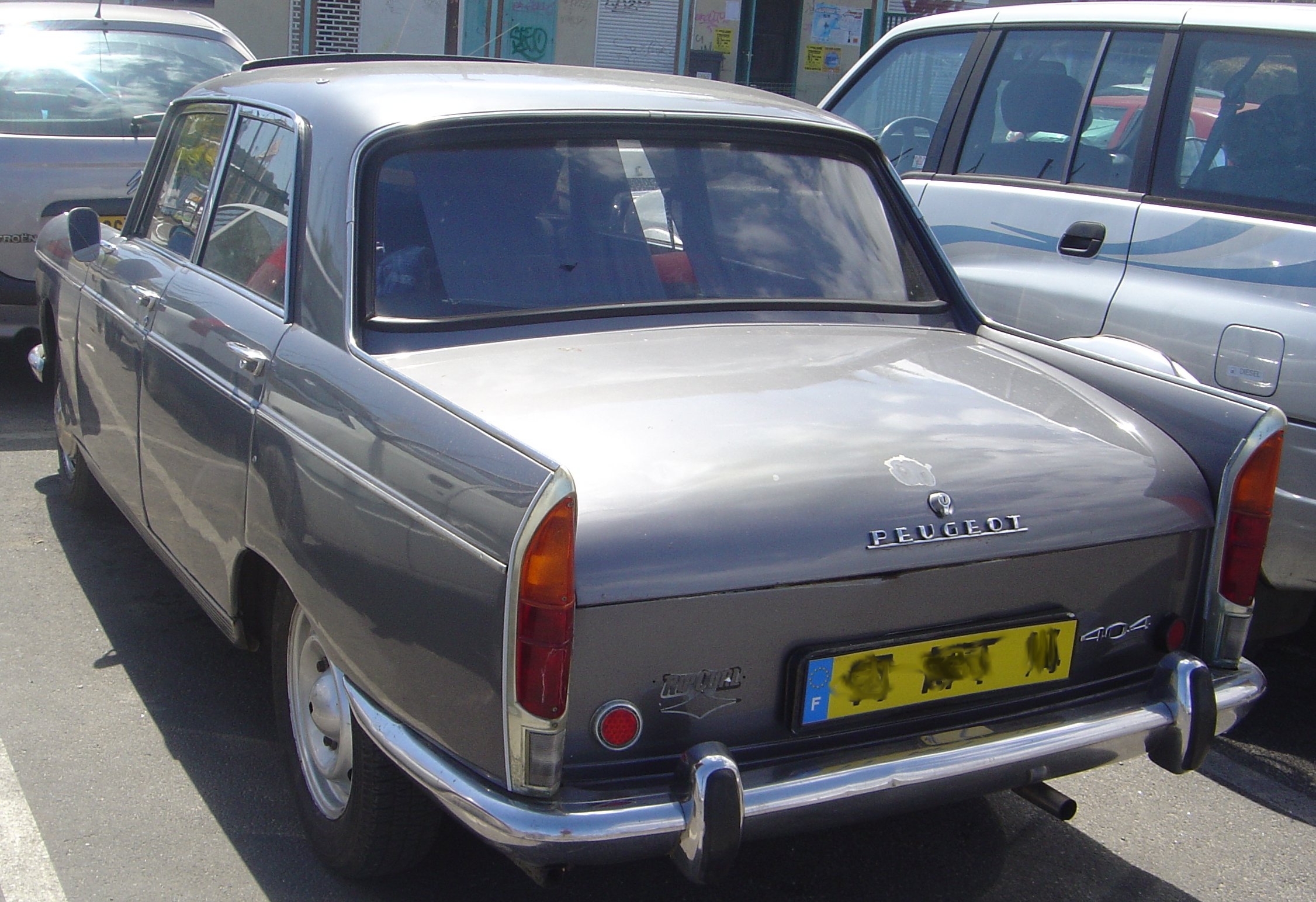 CopydesignIn some countries, the design of the subject of this image may be copyrighted. Also, the brand of the subject may be a registered trademark. While the license of the photograph or other reproduction of this object as made available on this site is free, this should not be construed as to imply that the Wikimedia Foundation or the author of the reproduction claim or grant any rights as to the design of the object (See Derivative works). Before reusing this content, please ensure that you have the right to use it under the laws which apply in the circumstances of your intended use. You are solely responsible for ensuring that you do not infringe someone's copyrights. See our general disclaimer. Peugeot 404